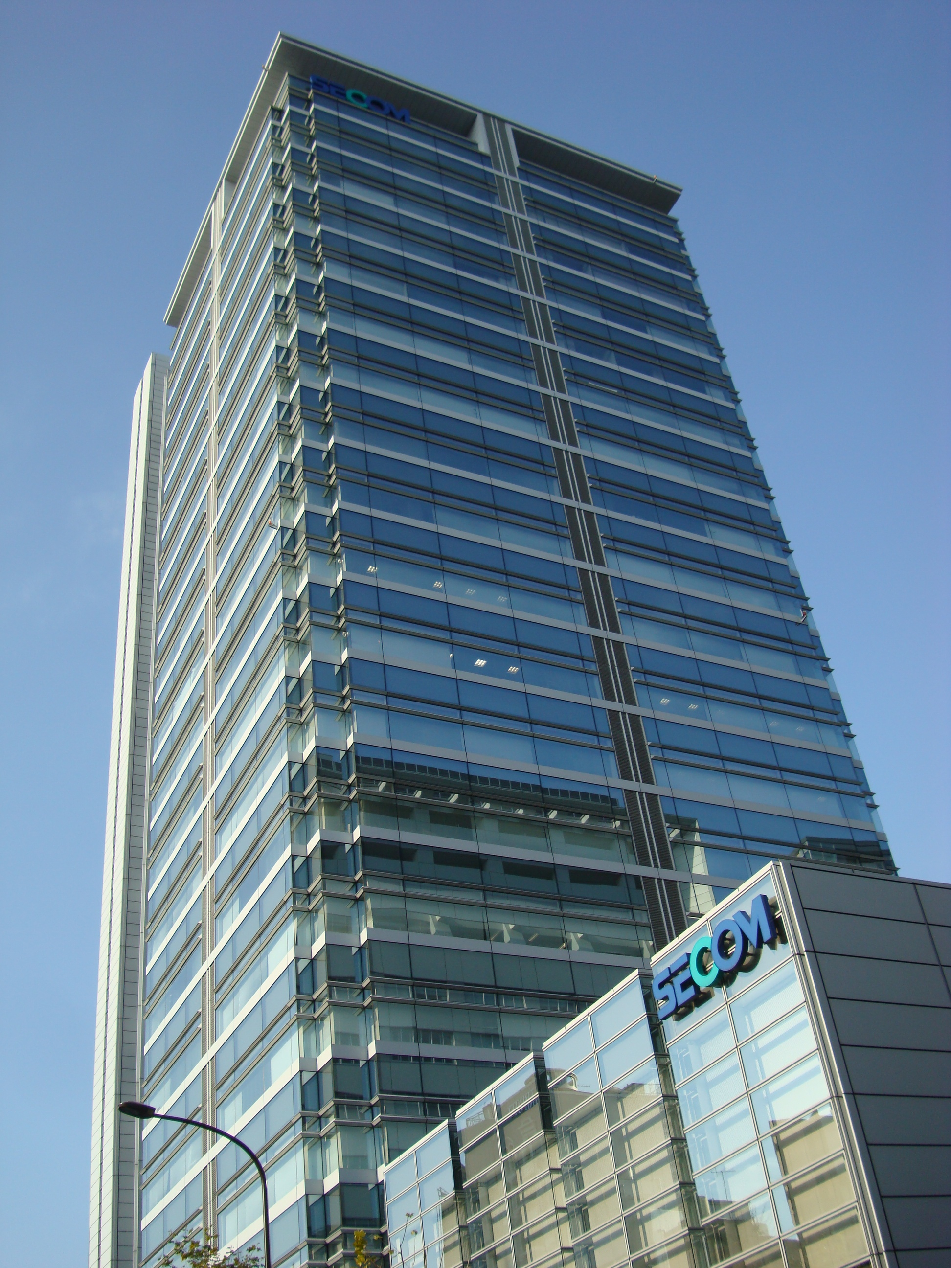 Secom Headquarters, Shibuya, Tokyo